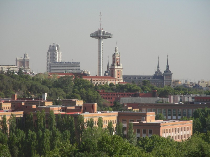 Partial view of the Moncloa-Aravaca district in Madrid (Spain) from the Ciudad Universitaria (Complutense University campus). In the background, the Faro de Moncloa (communications tower).